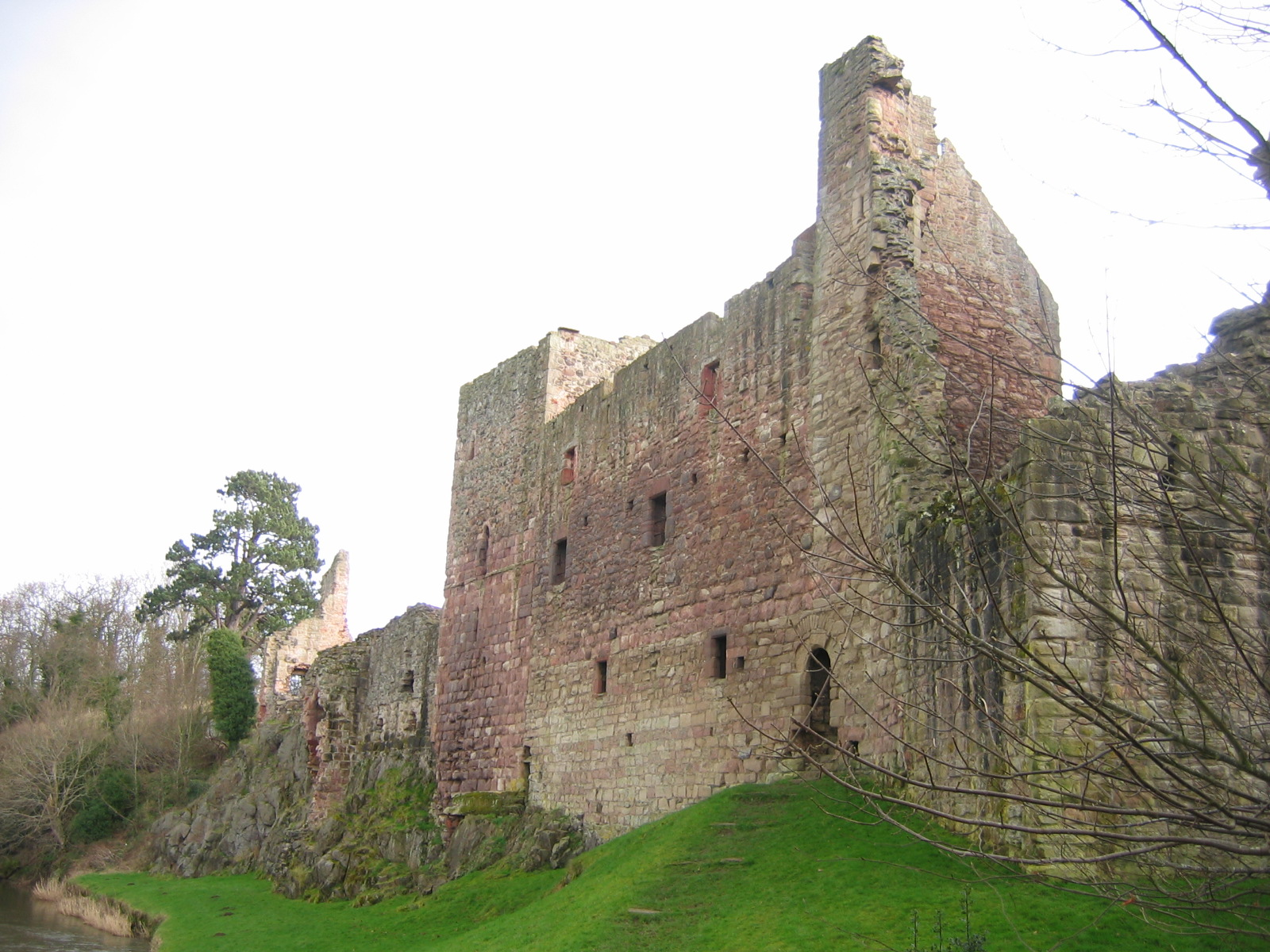 North face of Hailes Castle, East Lothian, Scotland.